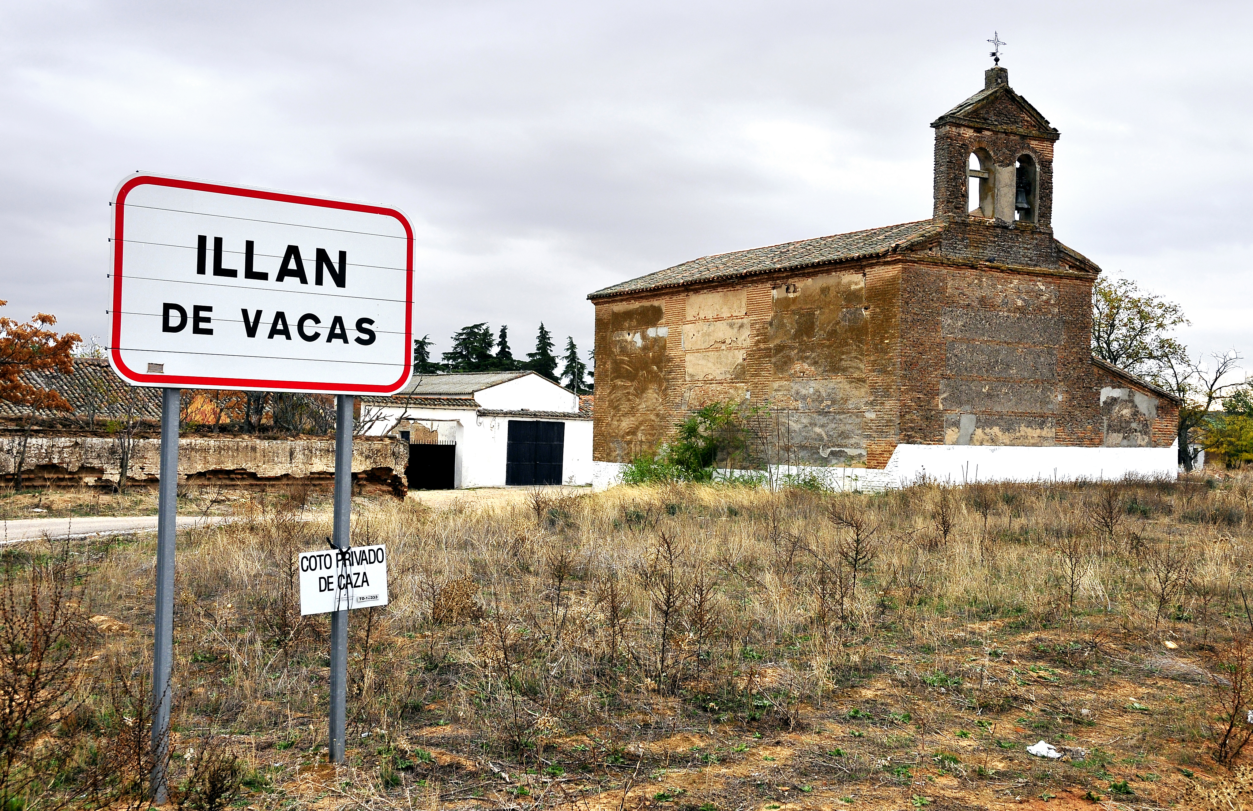 The church and town sign. Illán de Vacas, Toledo, Castile-La Mancha, Spain